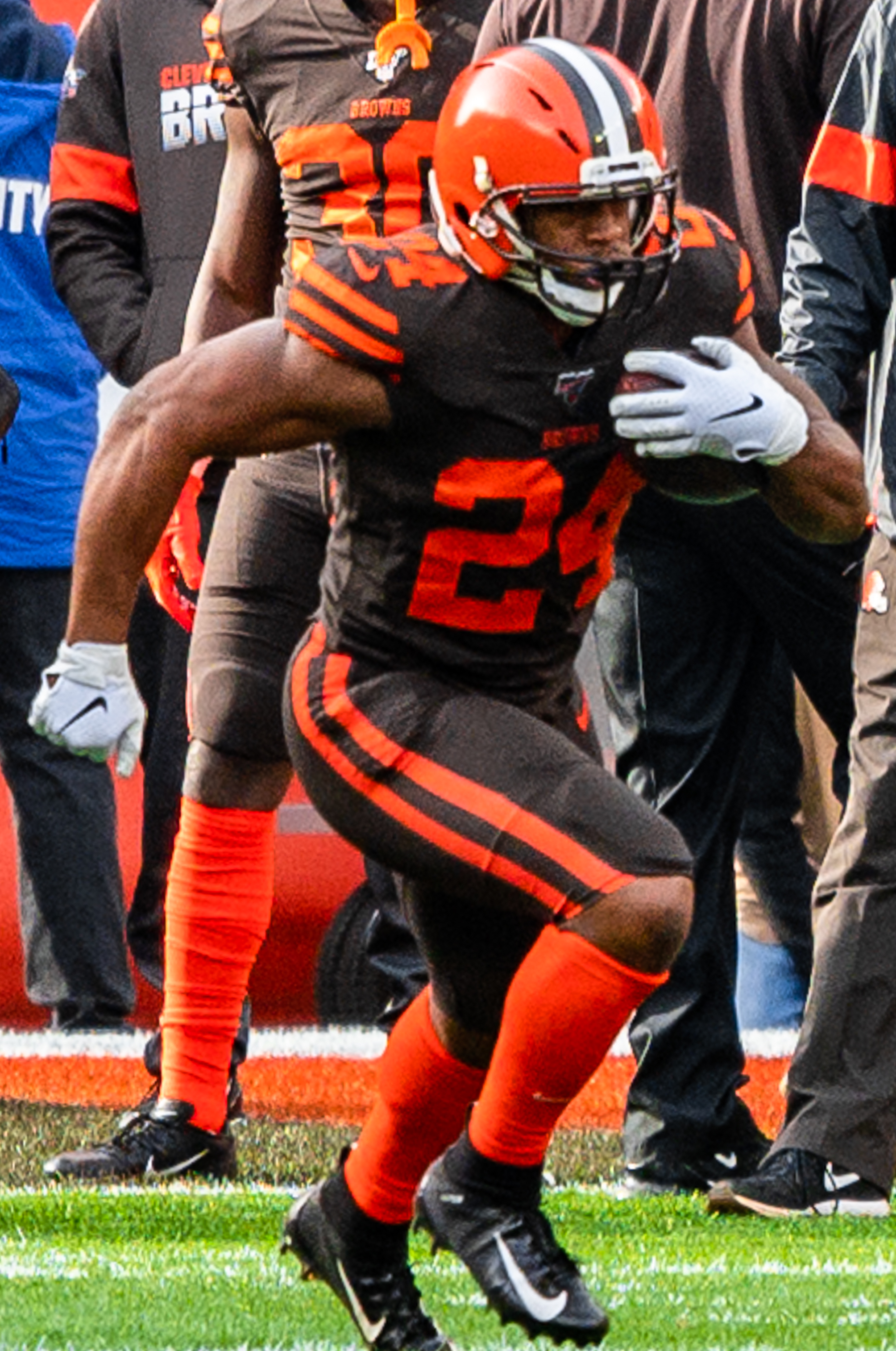 Nick Chubb